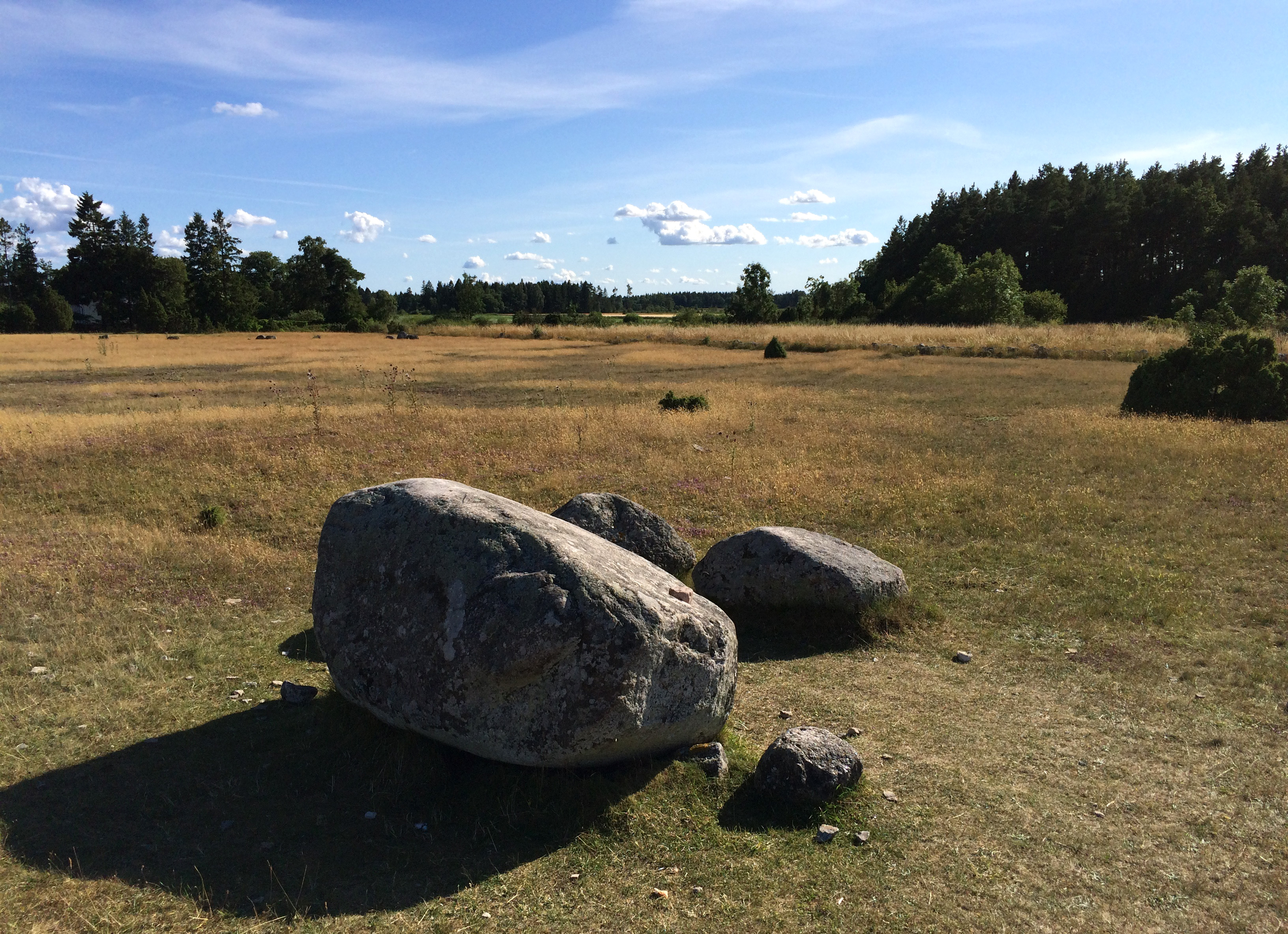 Sangelstenen, "the singing stone", a metal-sounding phonolite at Laikarhaid SE of Lärbro, Gotland.